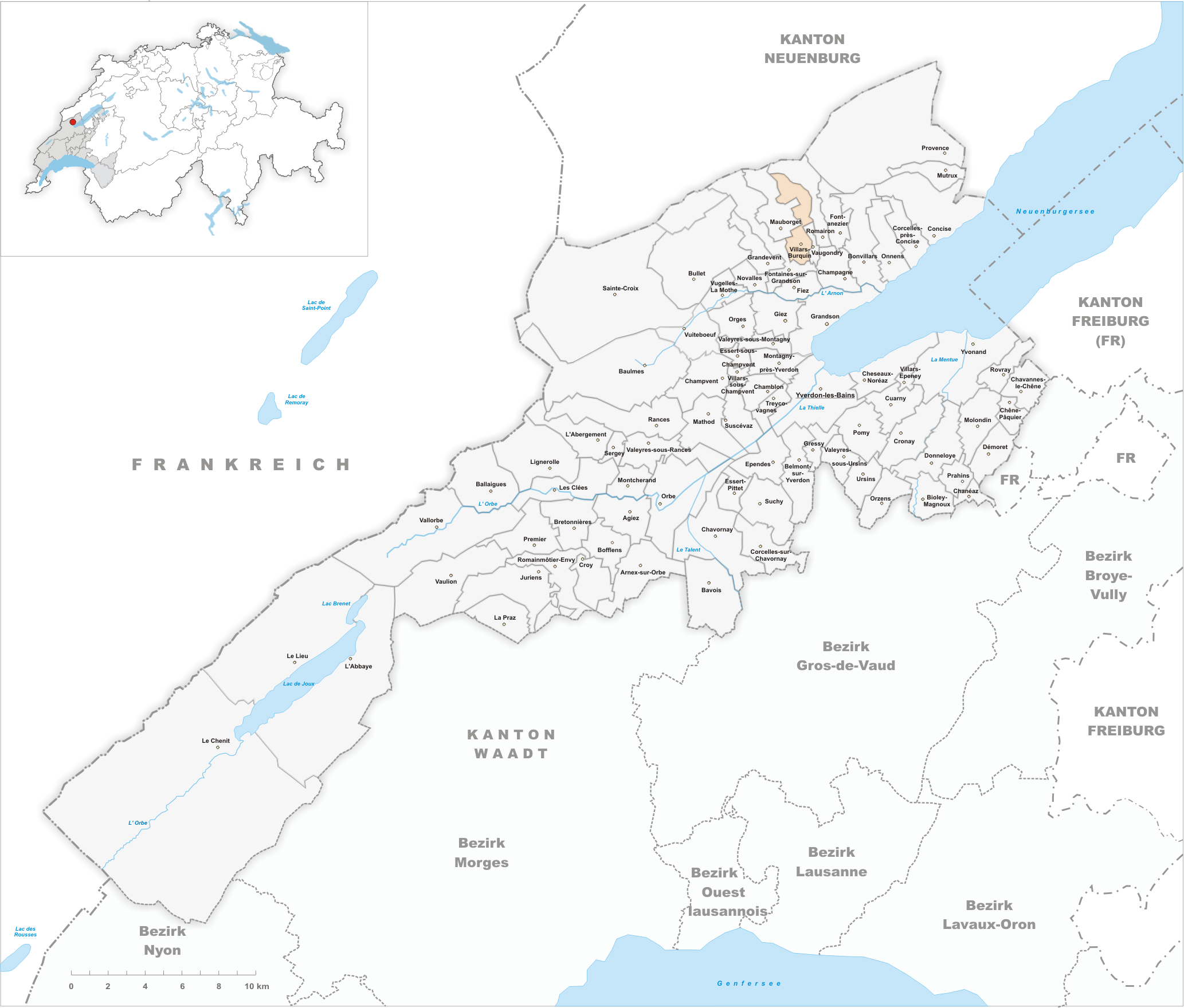 Municipality Villars-Burquin